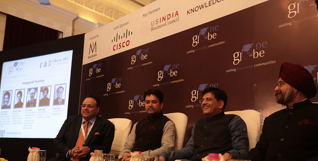 One Globe conference